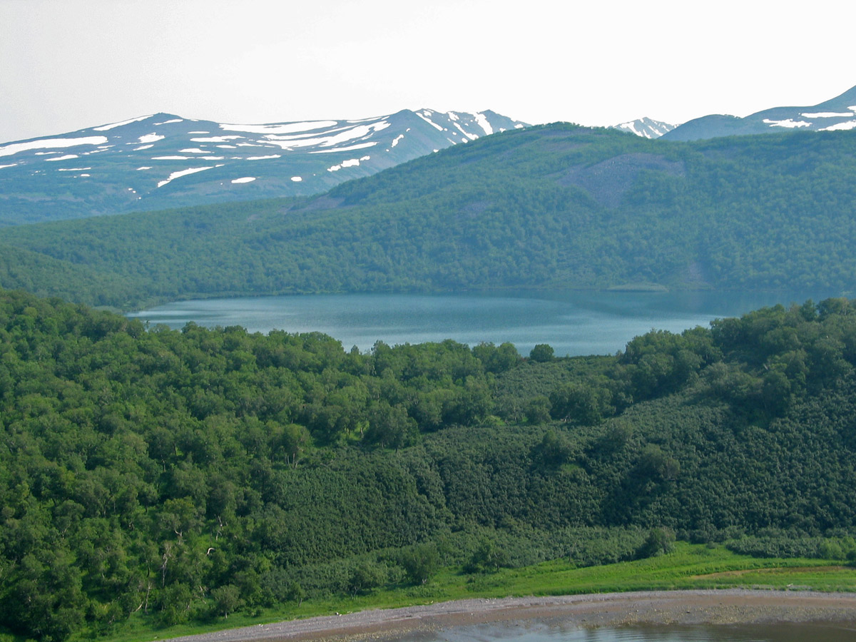 Single eruption crater on Nachikinskiy volcanoe, Kamchatka.